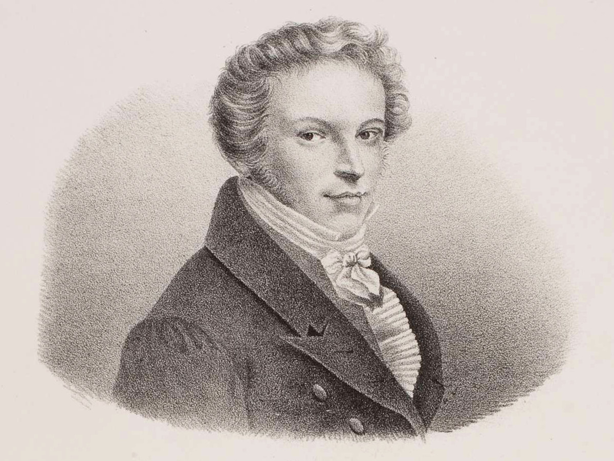 Depicted person: Heinrich Wilhelm Stolze